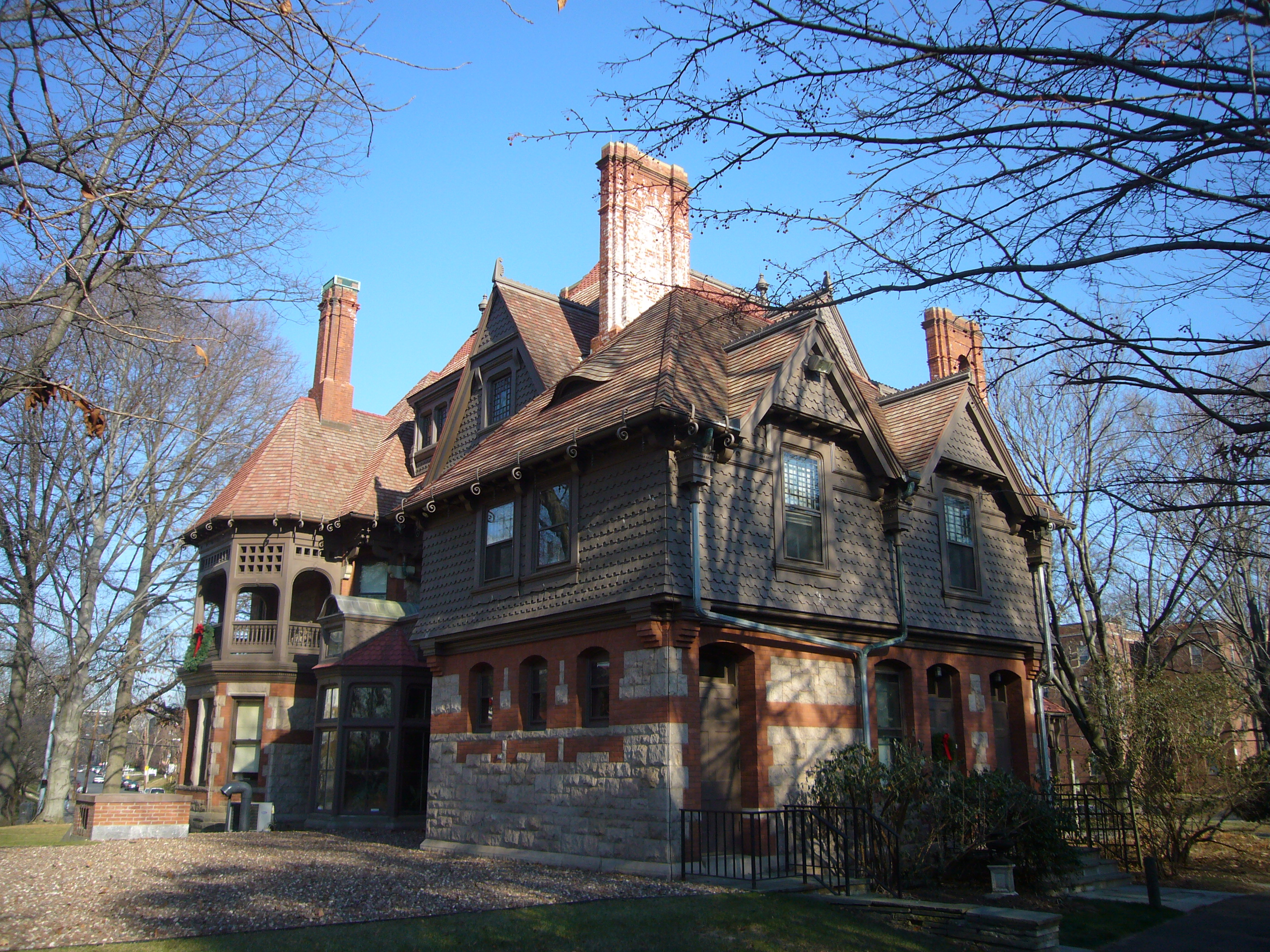 Katherine Seymour Day House, Hartford, CT (exterior) at the Harriet Beecher Stowe Center.